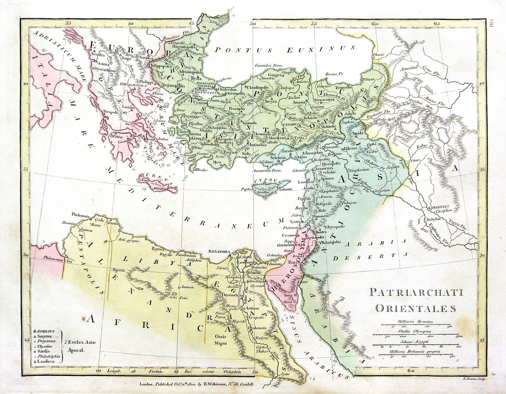 Map of the 4 Eastern Churches in the Pentarchy, circa 500CE